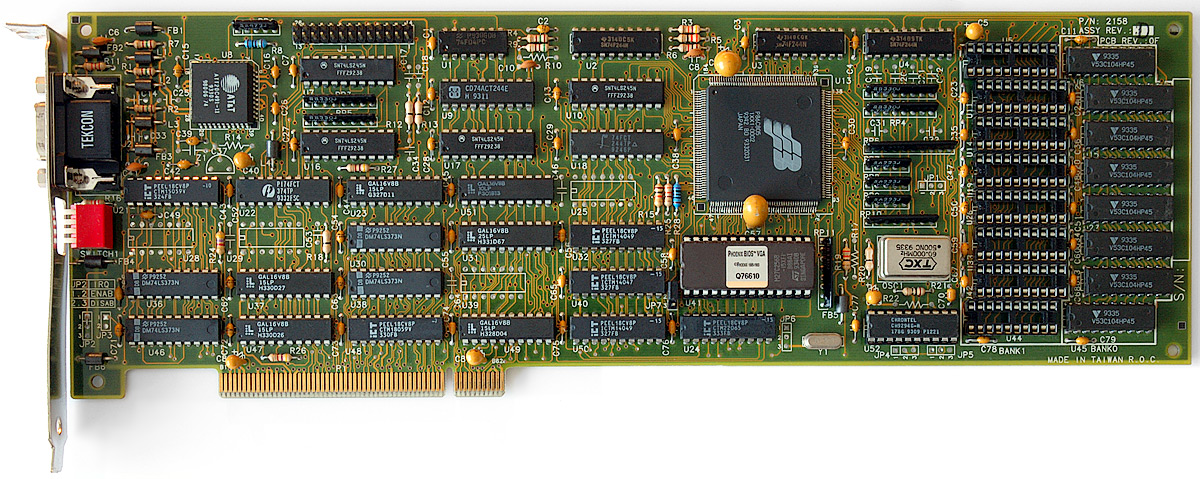 This image shows a Miro Crystal 8S with a S3 P86C805 chipset.